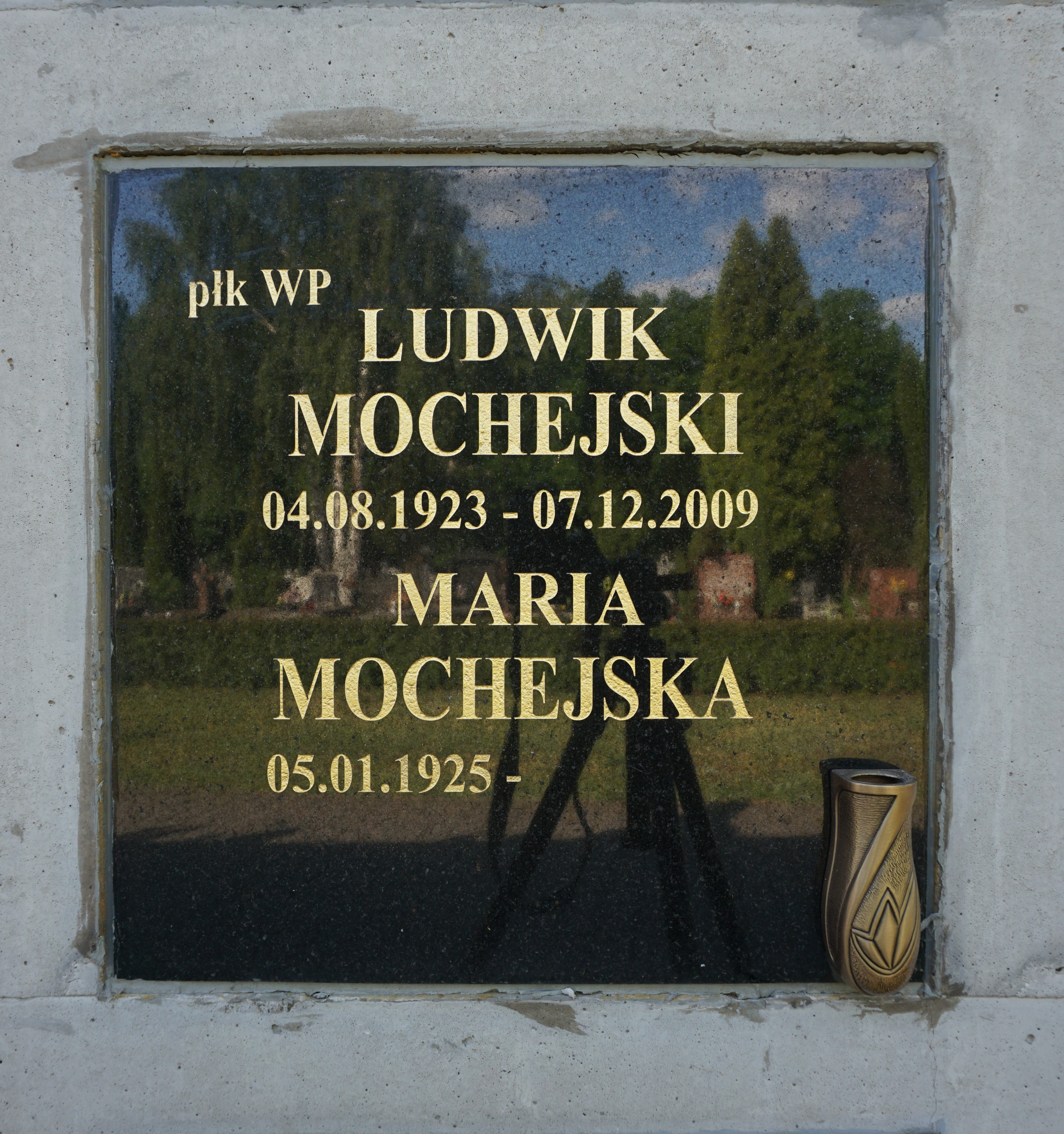 The grave of Ludwik Mochejski at the North Municipal Cemetery in Warsaw (section B-III-1, row 2, grave 15)